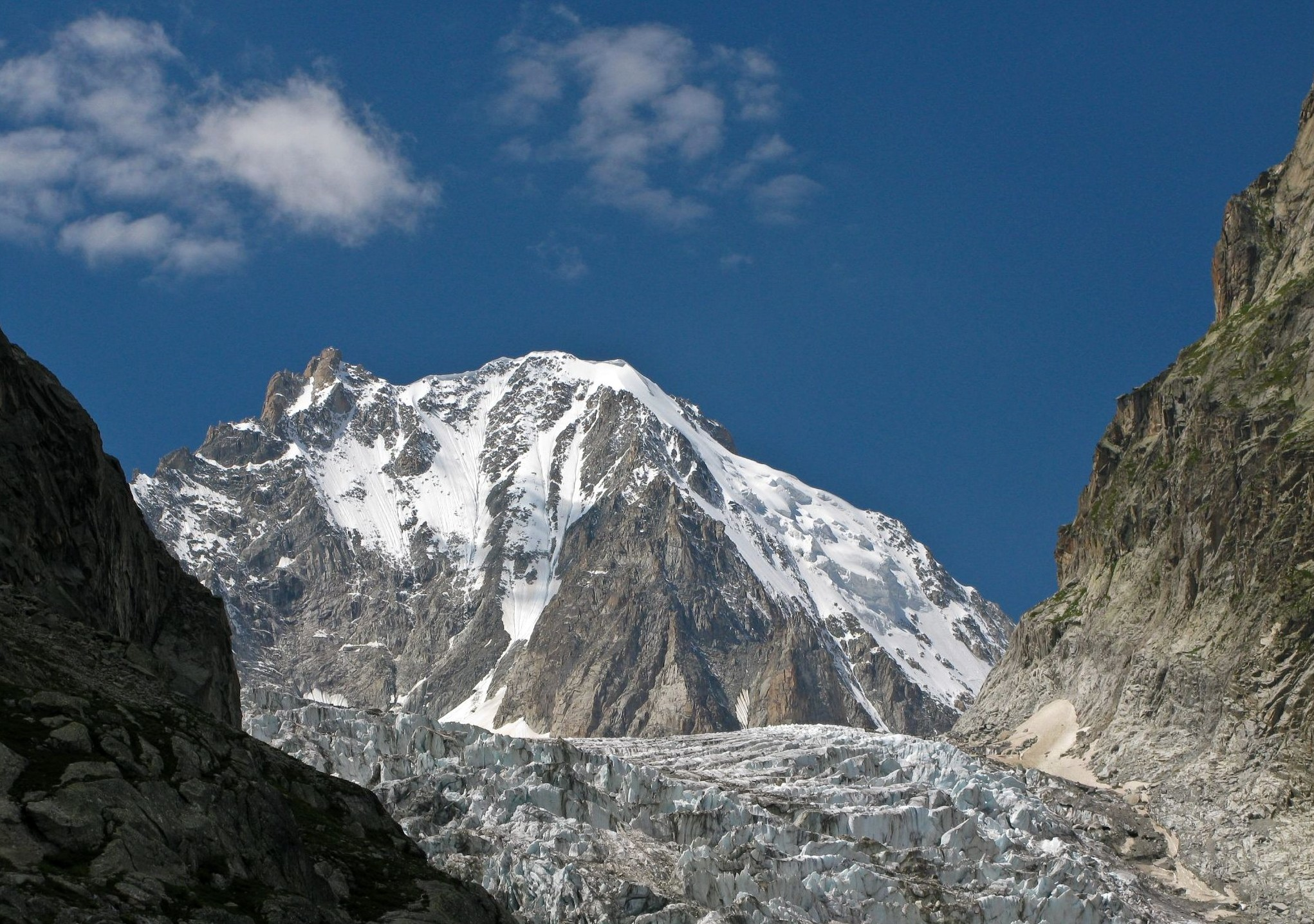 Aiguille d'Argentière from Saleinaz, Switzerland